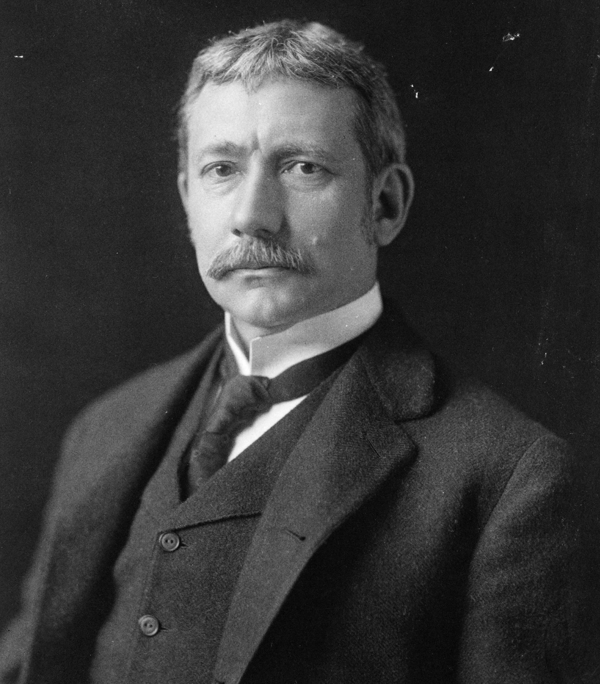 Elihu Root, former Secretary of War and State, and Senator.